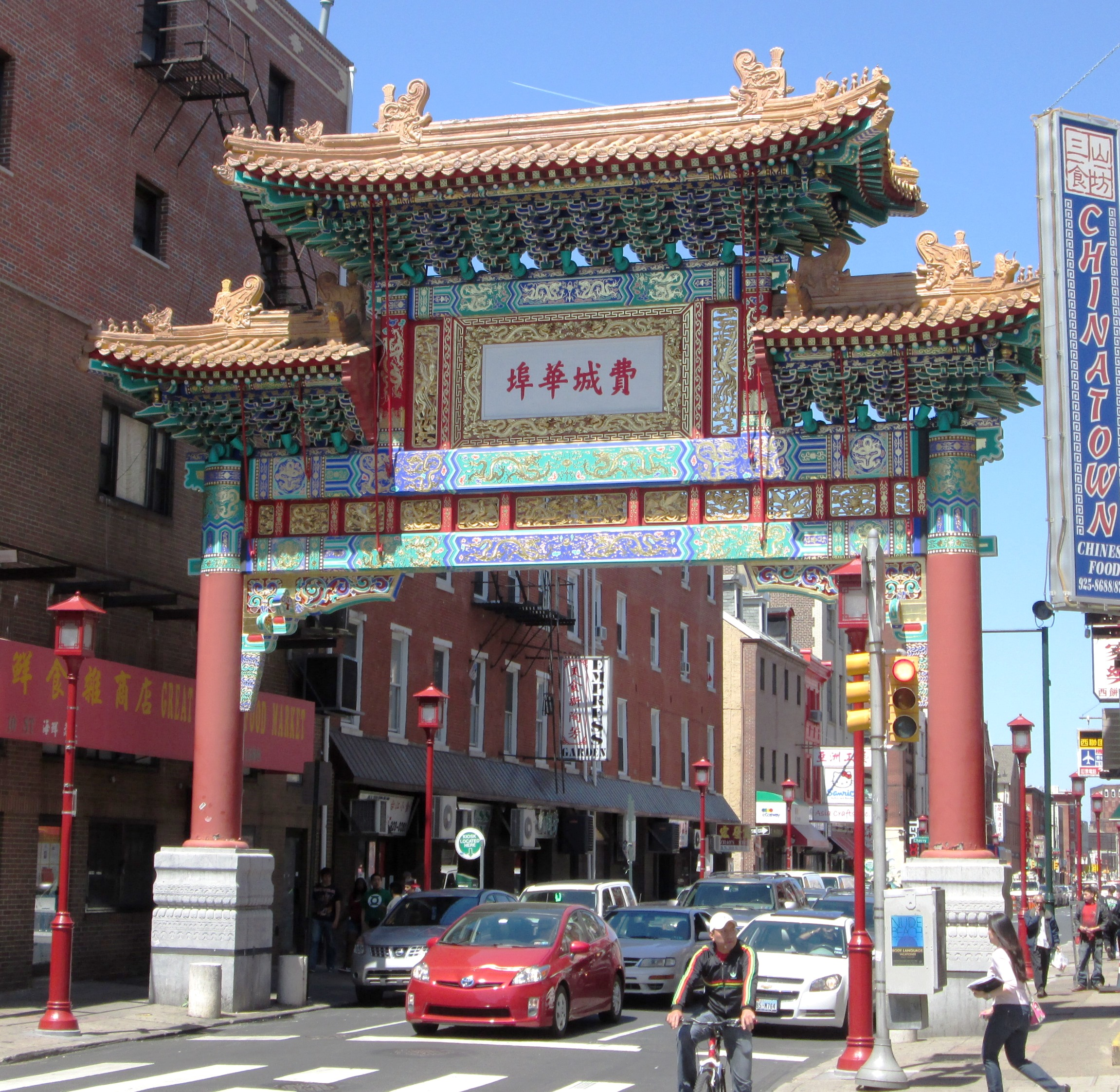 The Friendship Gate, Friendship Arch or China Gate on N. 10th Street near the intersection with Arch Street in the Chinatown neighborhood of Philadelphia was built in 1984 and was designed by Sabrina Soong. It was constructed by engineers and artisans from China. The large Chinese characters on translate as "Philadelphia Chinatown". The brightly painted portal follows a traditional Qing Dynasty style, using tiles from Philadelphia’s sister city, Tianjin. (Source: "The China Gate")